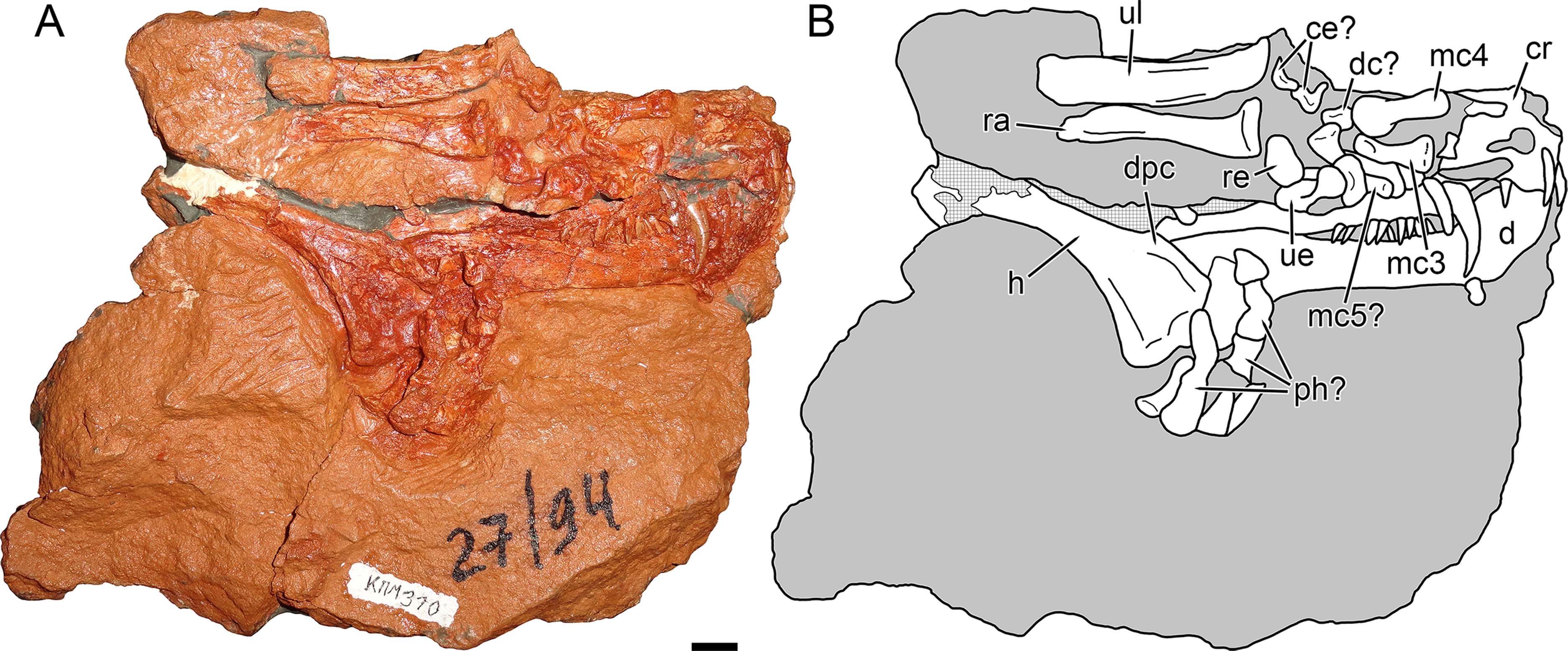 Holotype block of Nochnitsa geminidens (KPM 310). (A) right lateral view with (B) interpretive drawing. Abbreviations: ce, centrale; d, dentary; dc, distal carpal; dpc, deltopectoral crest; h, humerus; mc, metacarpal; ph, phalanx; ra, radius; re, radiale; ul, ulna; ue, ulnare. Gray indicates matrix, hatching indicates plaster. Scale bar equals 1 cm. Photograph and drawing by Christian F. Kammerer.